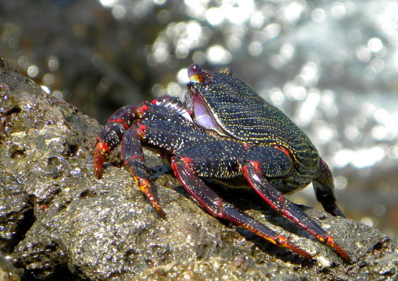 Grapsus albolineatus Grapsus adscensionis. Location: Spain - Tenerife